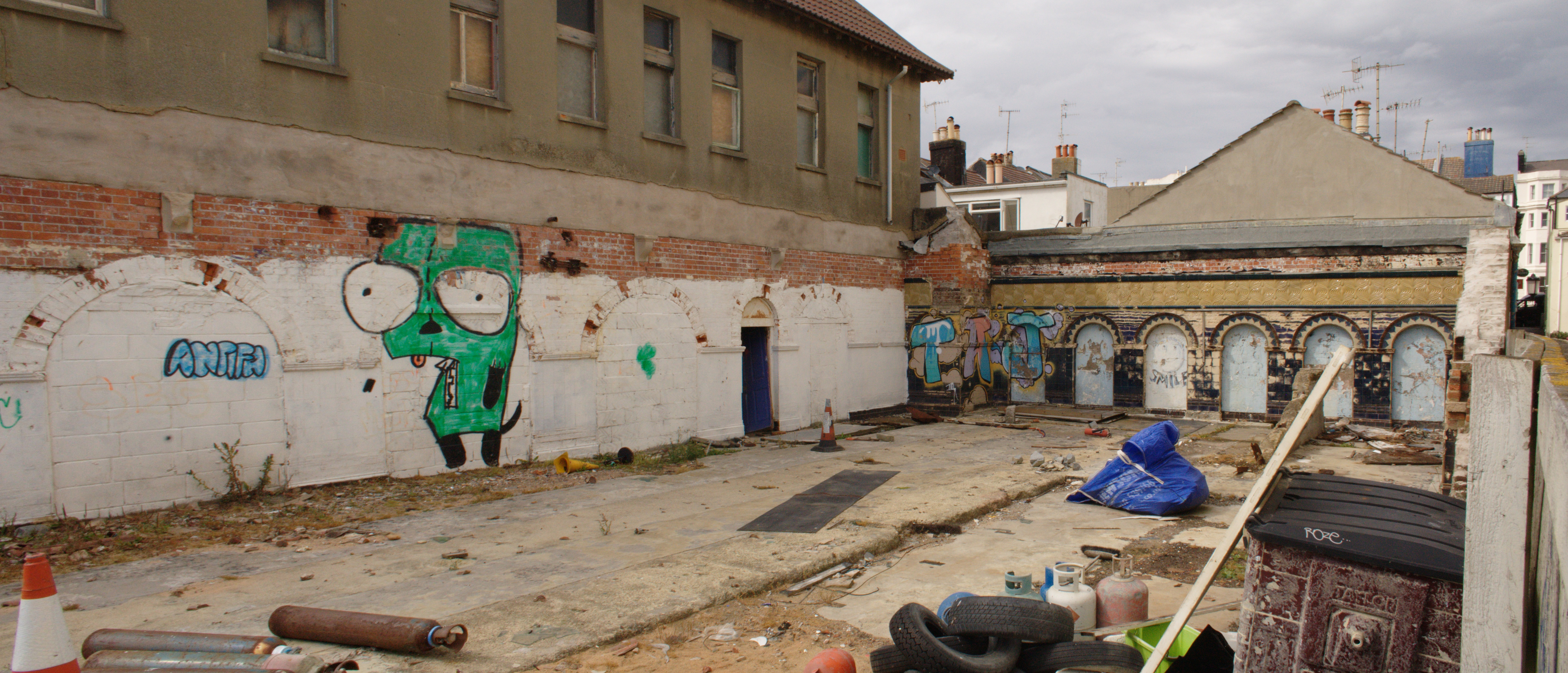 Part of the site of Medina House Turkish Baths, Hove, England.